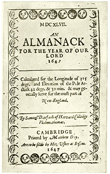 Author: Samuel Danforth Source: MDCXLVII. An Almanack for the Year of our Lord 1647 (Cambridge [Mass.], 1647)